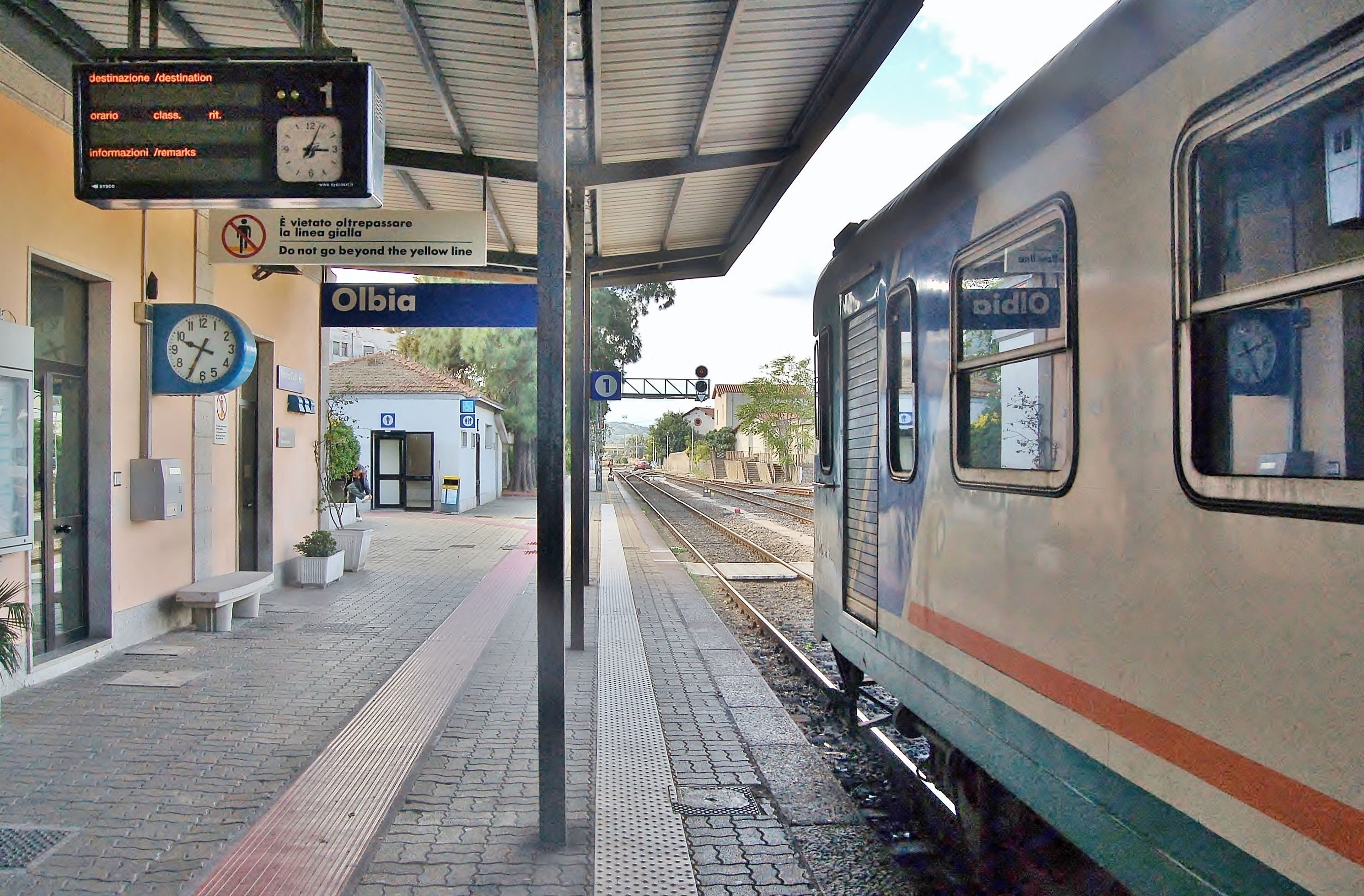 Olbia railway station platform, Sardinia, Italy, looking south west, with ALn 668 3228 at right.